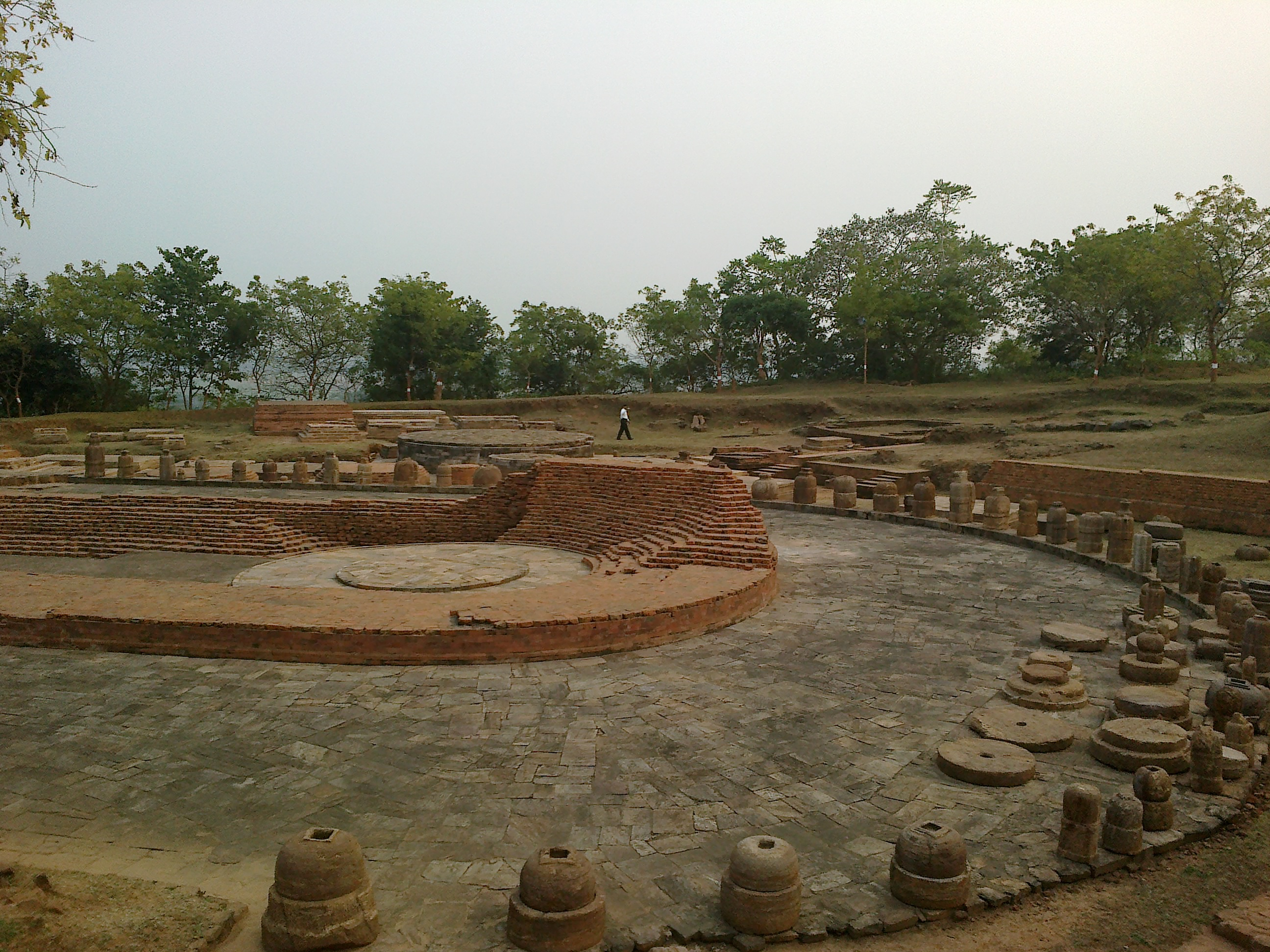 Chaityagriha at Lalitgiri, Odisha